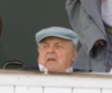 Mikhail Tanich at football